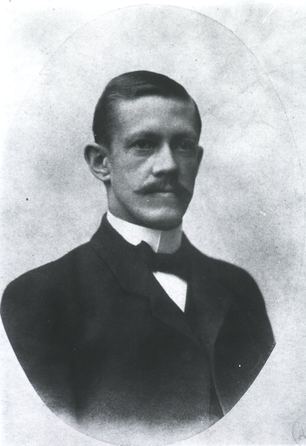 Allvar Gullstrand